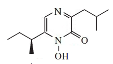 Aspergillic acid structure